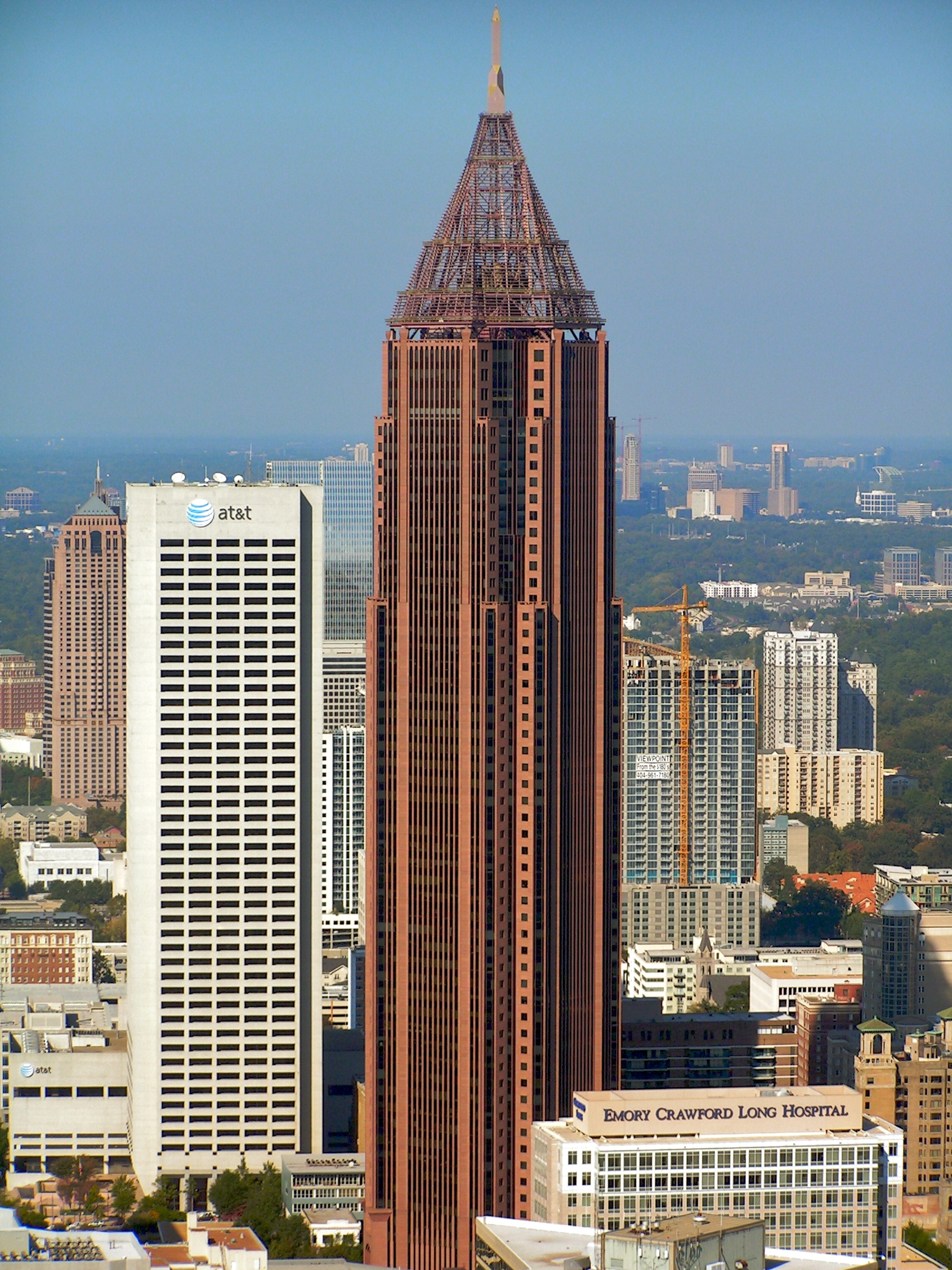 Bank of America tower in Atlanta, GA